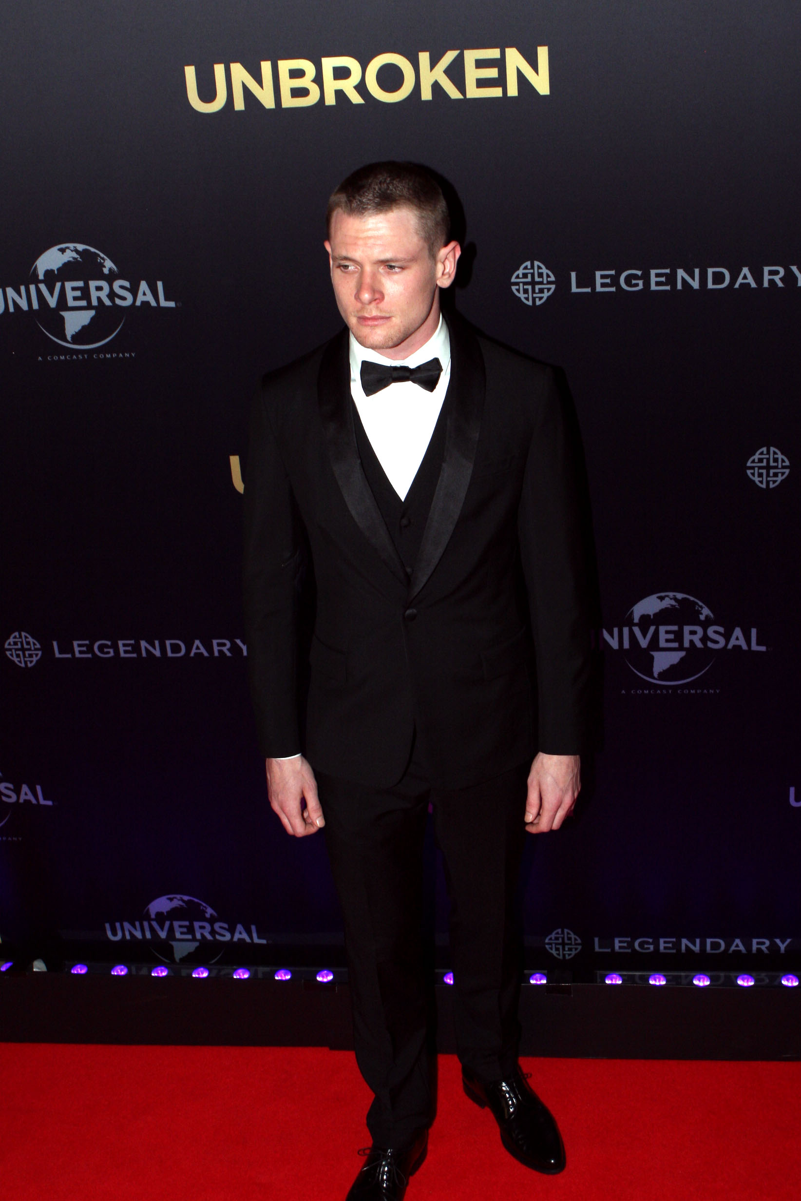 Unbroken World Premiere